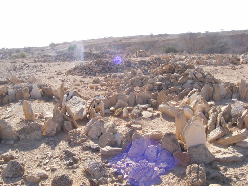 Scenes of ruins of Qombo'ul, Sanaag, Somalia